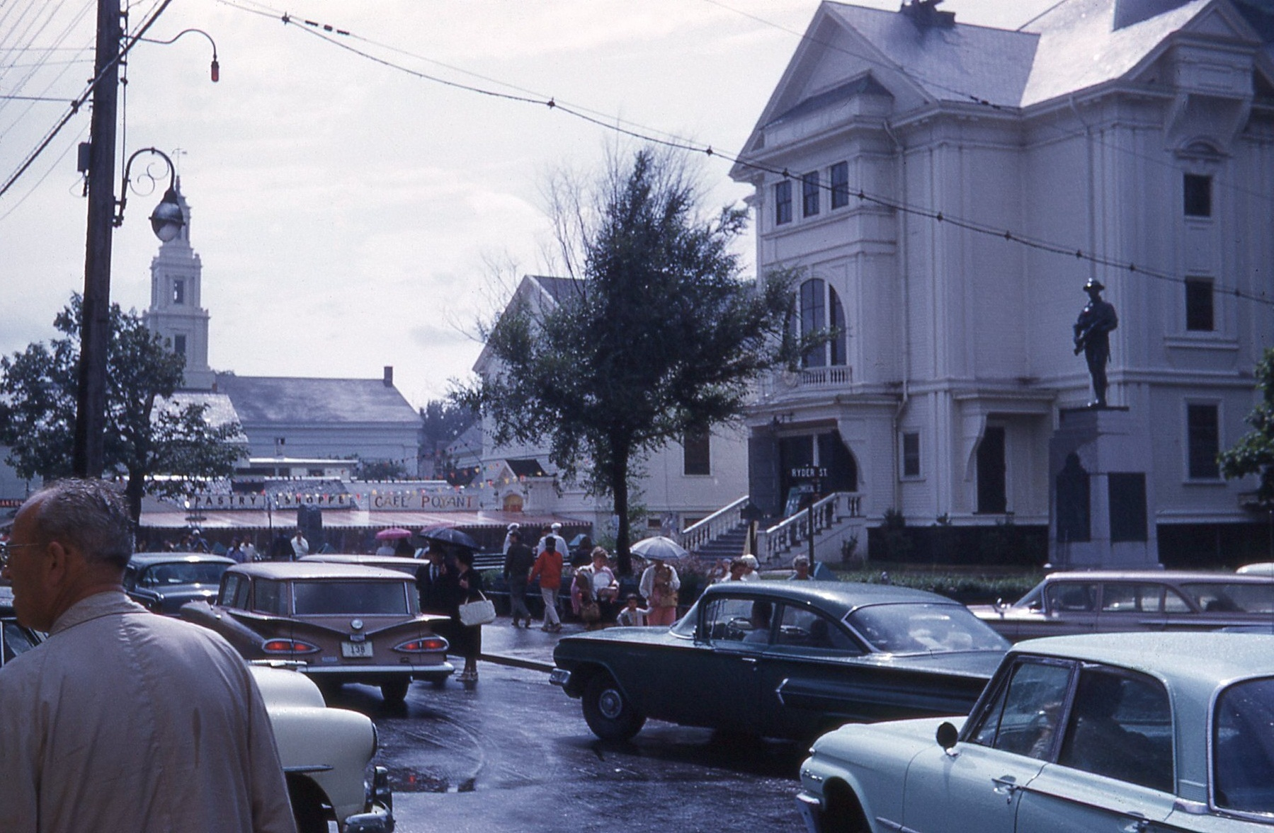 Town hall, and Cafe Poyant in Provincetown Mass, 1961.